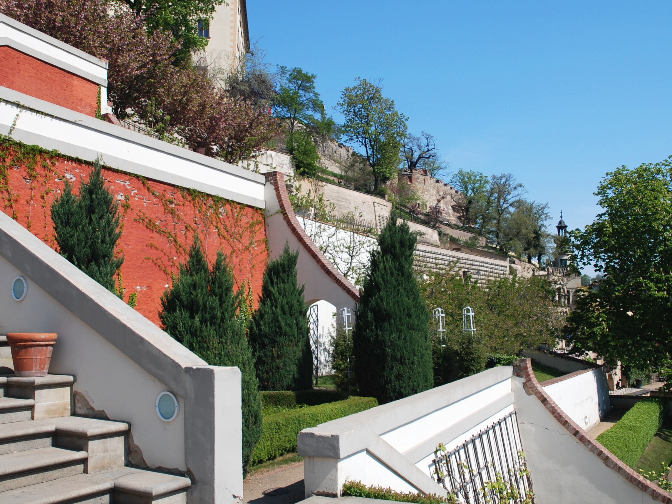 Gardens of Malá Strana palaces, under the Prague Castle.